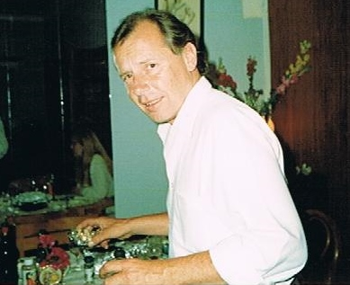 Photo of Australian musician Jimmy Doyle taken in 1990.